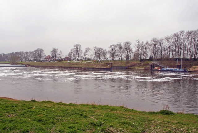 Cromwell Lock and Weir The weir marks the point at which the River Trent becomes tidal, and the huge Cromwell Lock enables river craft to continue upstream (from this viewpoint) towards Newark. The two narrowboats at the right of the picture are waiting for the lock to empty after the previous group of six cabin cruisers had passed through.